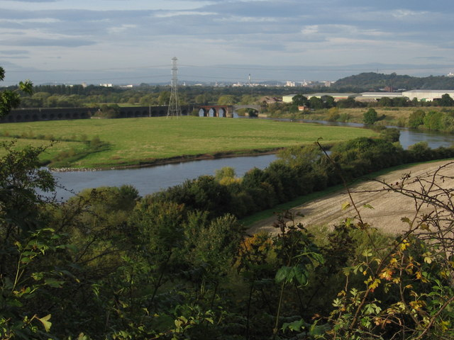 Radcliffe-on-Trent - View over River Trent Photo taken from The Cliff. Viaduct in middle distance is at Rectory Junction. Nottingham City visible in far distance.